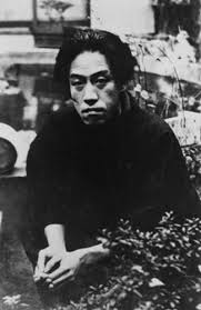 Japanese writer Kōsuke Gomi (五味 康祐)